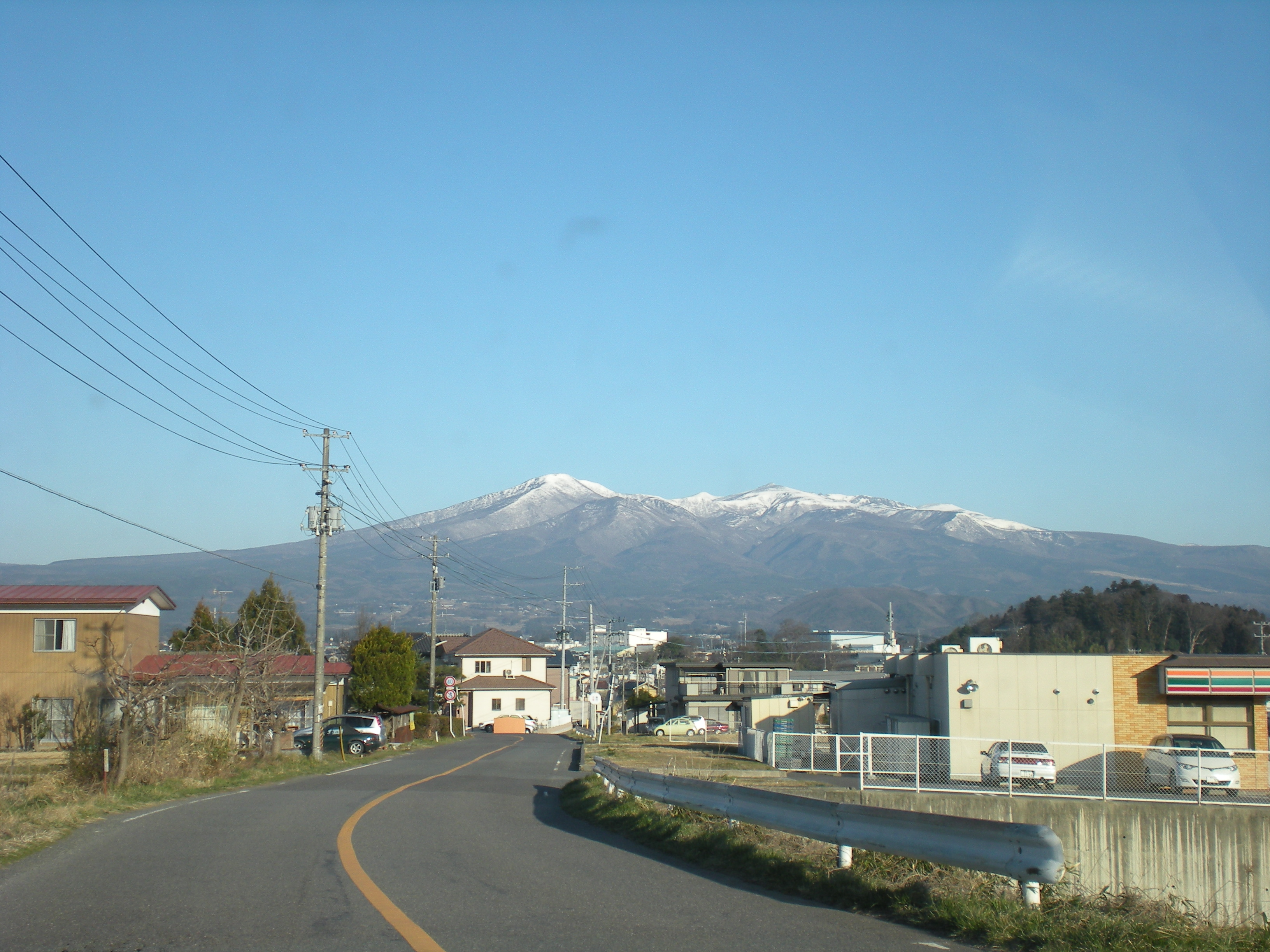 Mt.Adatara., Motomiya.